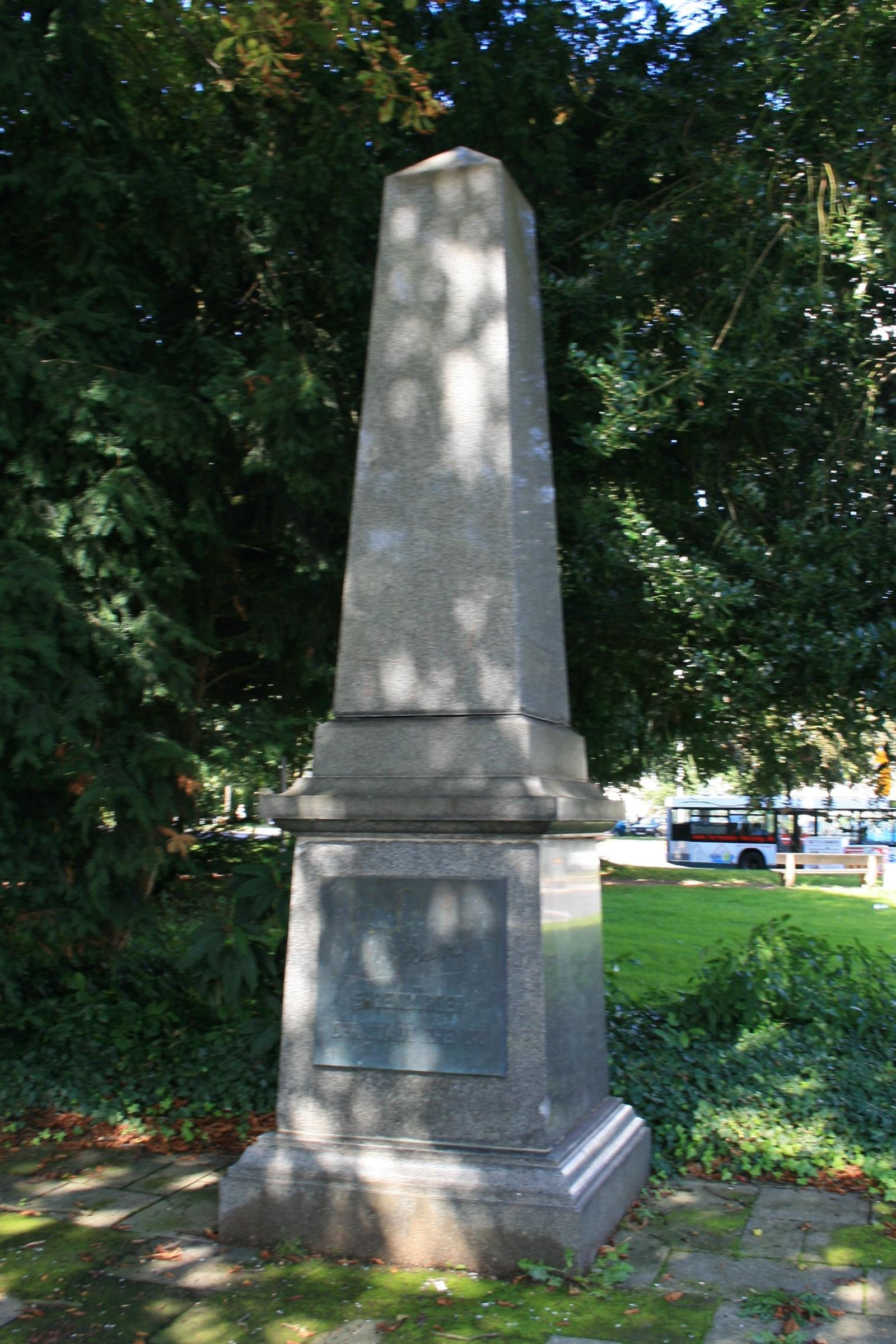 Cultural heritage monument No. V 026 in Mönchengladbach